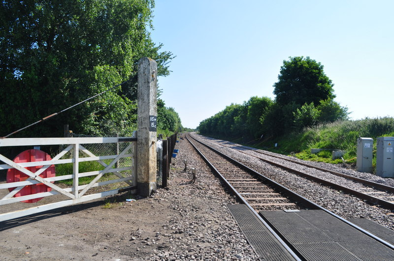 The Site of Spinks Lane Station, near to Wymondham, Norfolk, Great Britain. A small railway station was situated here but didn't last long. It opened in July 1845 and closed November 1845.